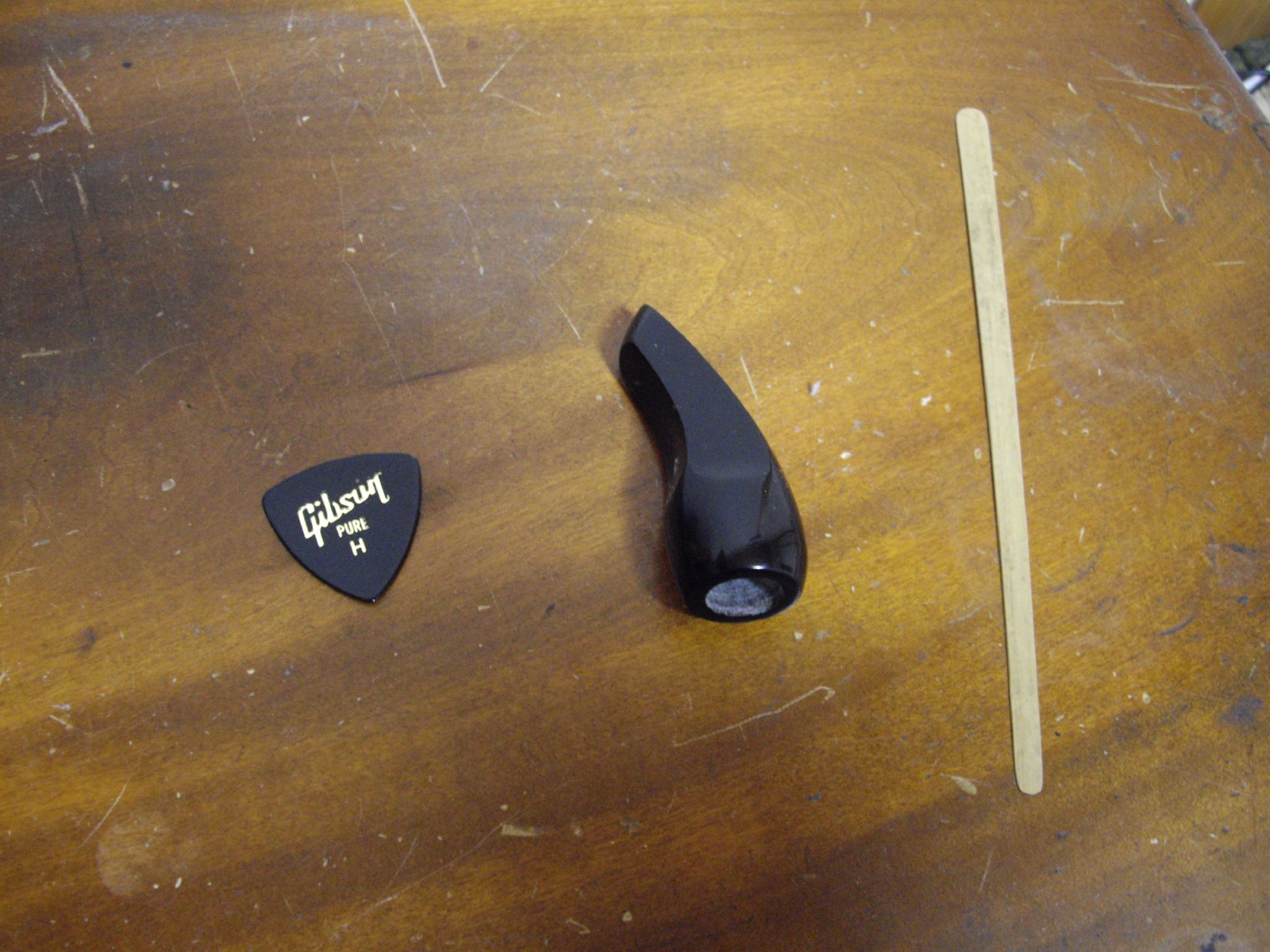 Guitar, sanshin, amami shamisen plectrums